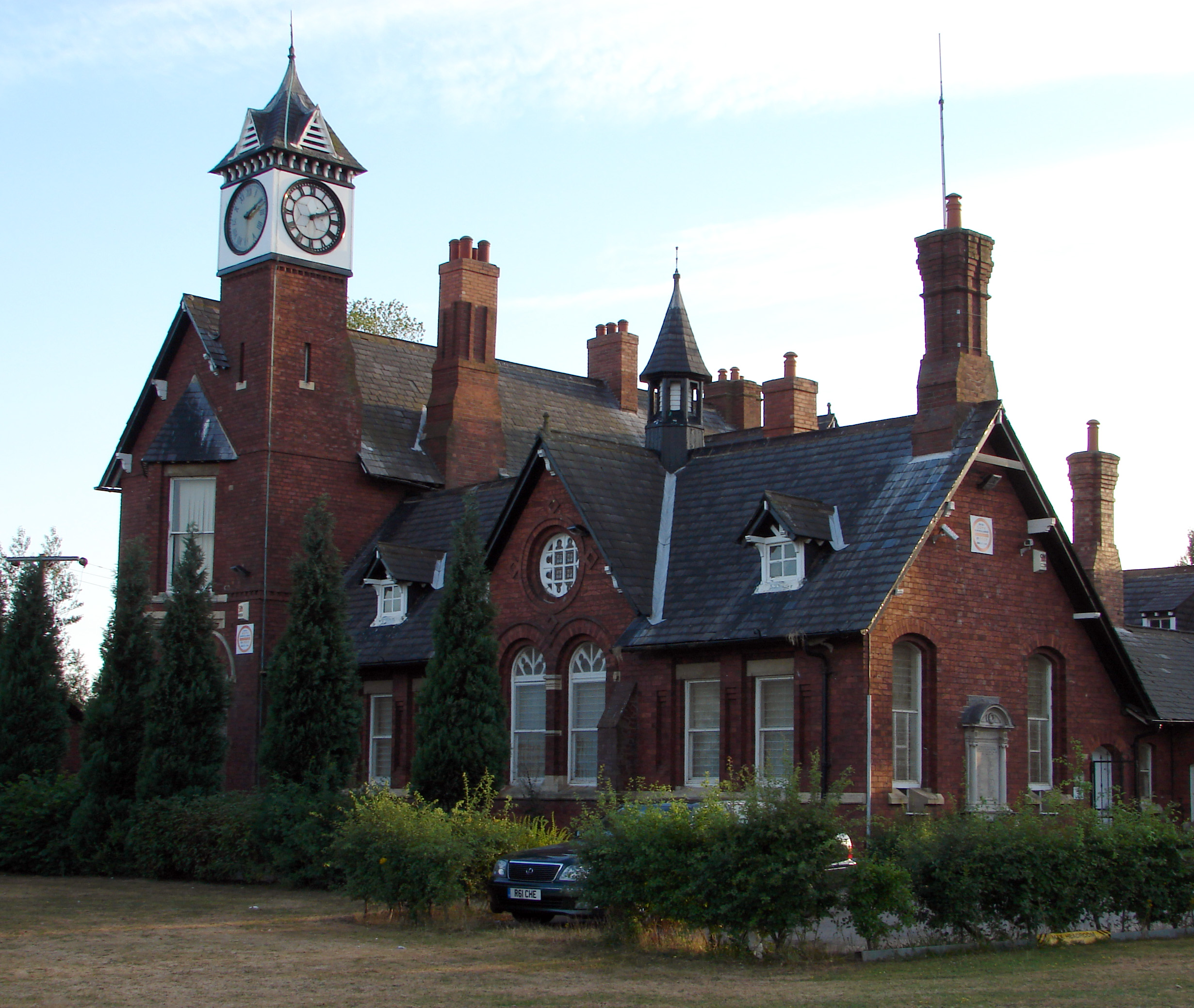 In all their gothic, er, glory. Still probably the least ugly building in Kiveton.